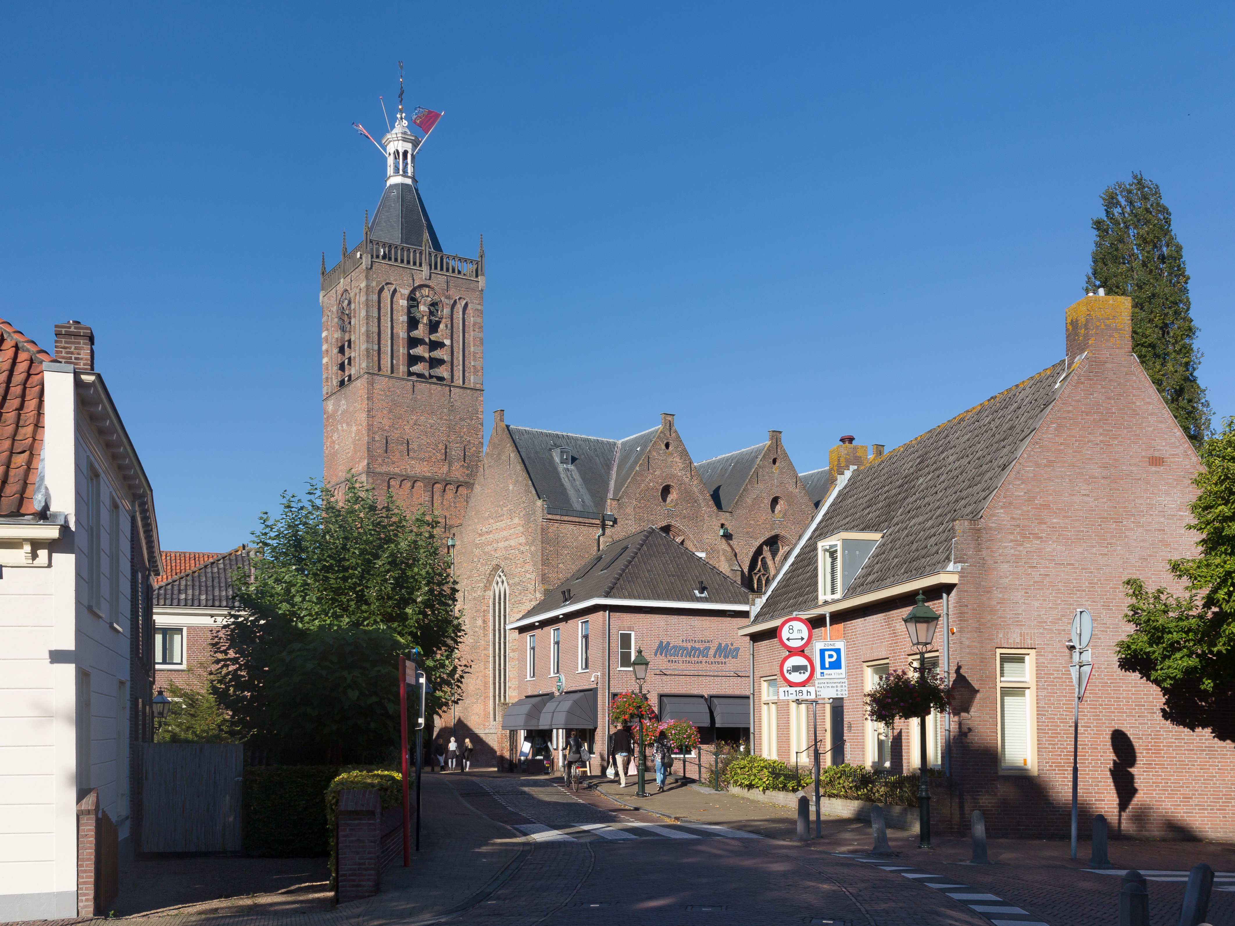 Vianen, reformed church: Maria ten Hemelopening